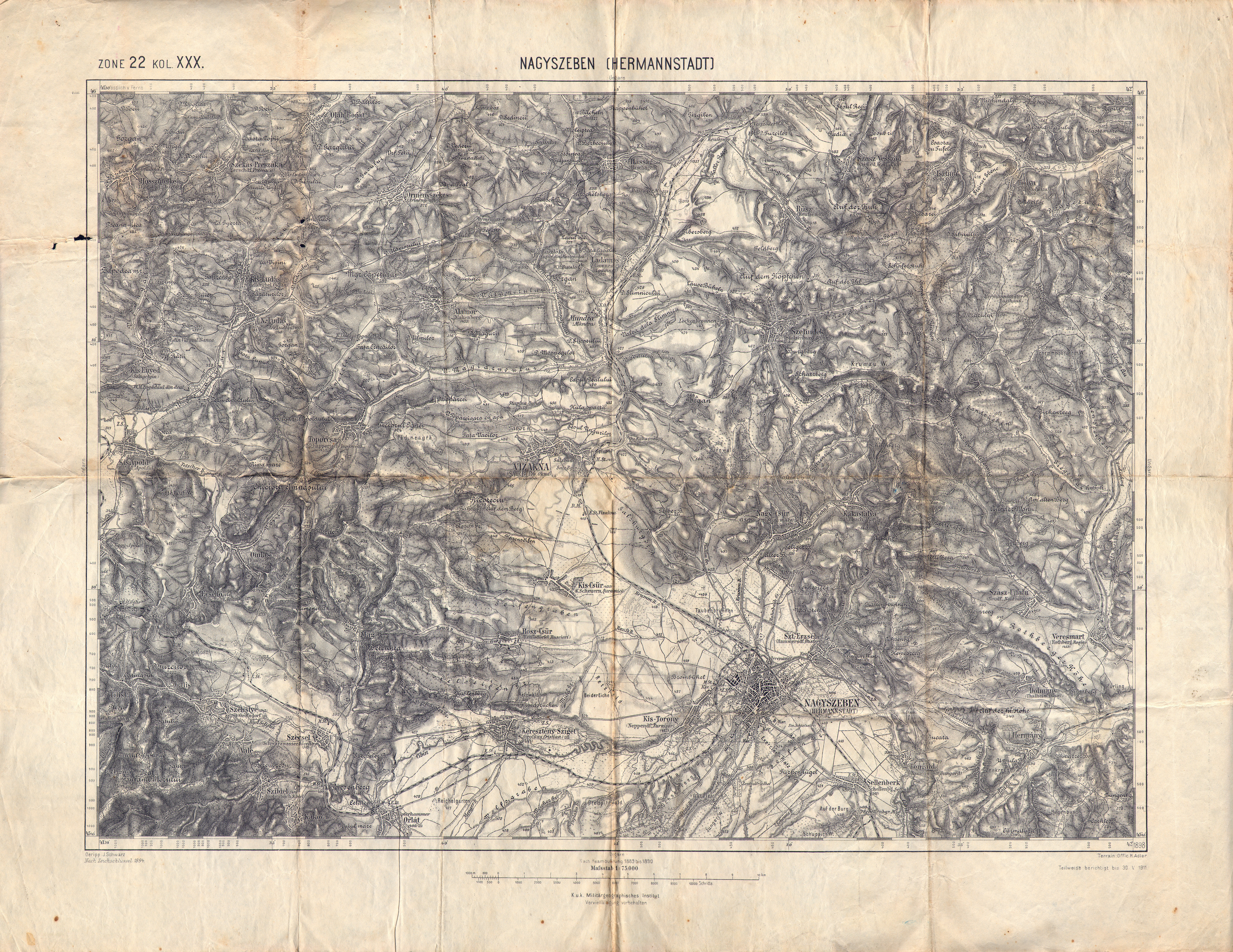 historical map: Special Issue Map 1:75.000 3rd Military Mapping Survey of Austria-Hungary, Zone 22, Kol. XXX, Nagyszeben (Hermannstadt) / Sibiu